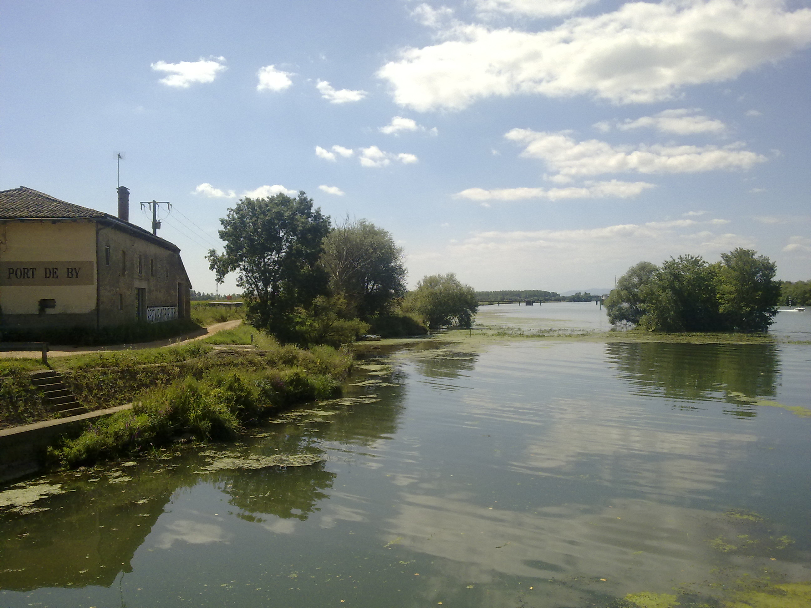 The river Saône at the restaurant "port de By" in Grièges commune, on the D51 road in the Ain departement, in front of Varennes-lès-Mâcon in the Saône-et-Loire departement. The river at this place is the limit between the two departements.